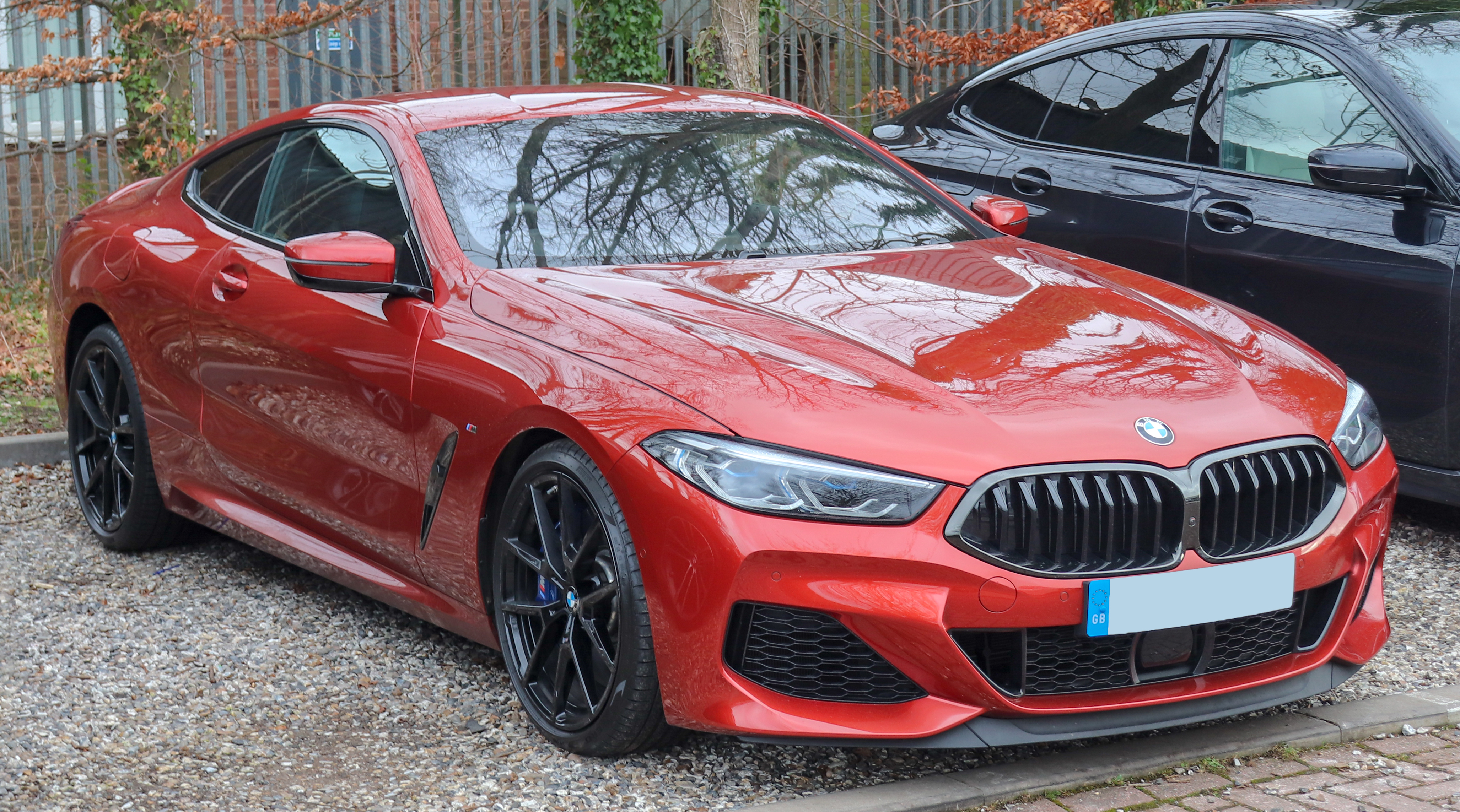 2018 BMW M850i xDrive Automatic 4.4 Taken in Leamington Spa